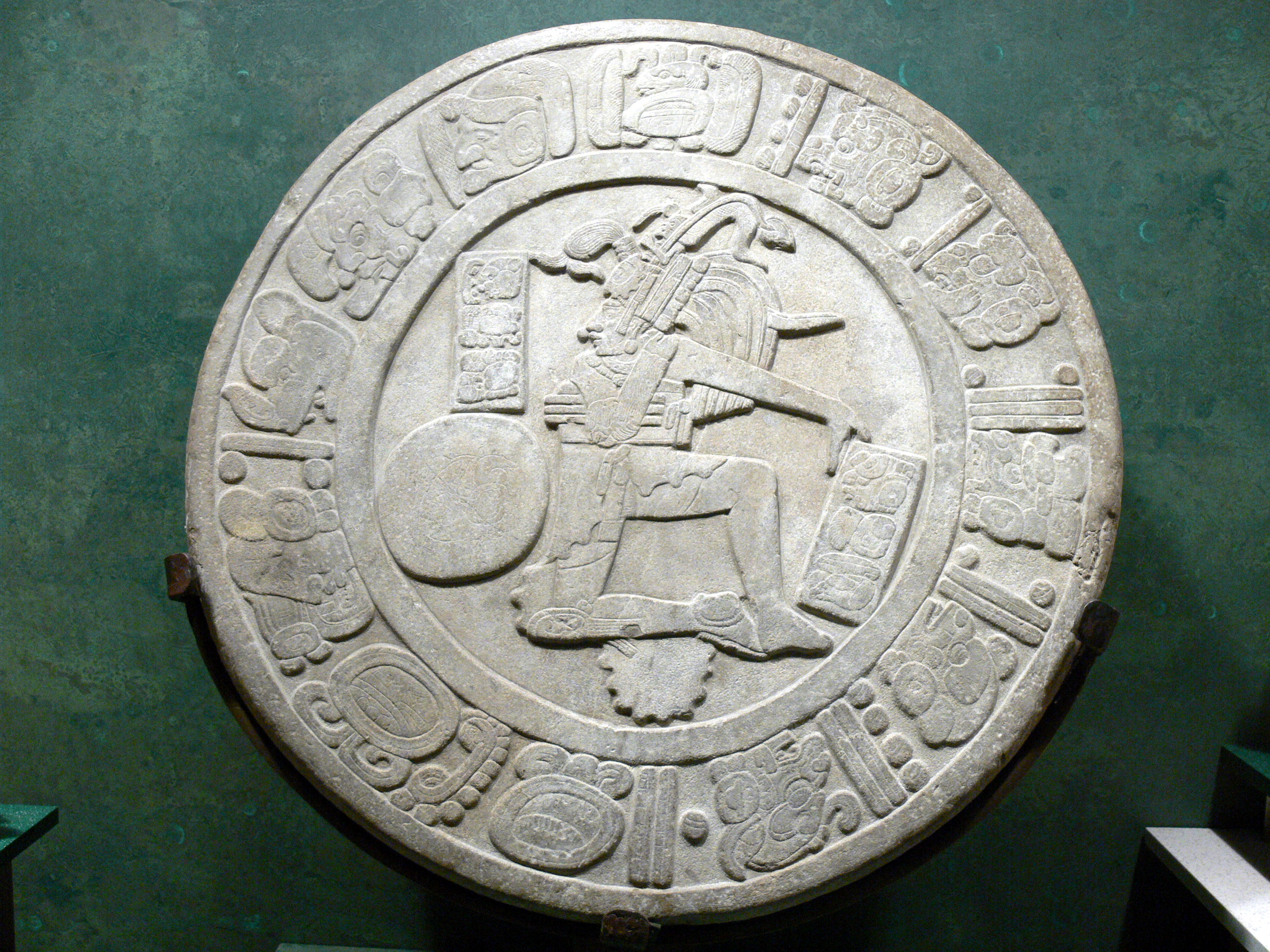 National Museum of Anthropology in Mexico City. Marker for a pelota game showing a pelota player in action ( Chinkultic/Chiapas, 591 AD )